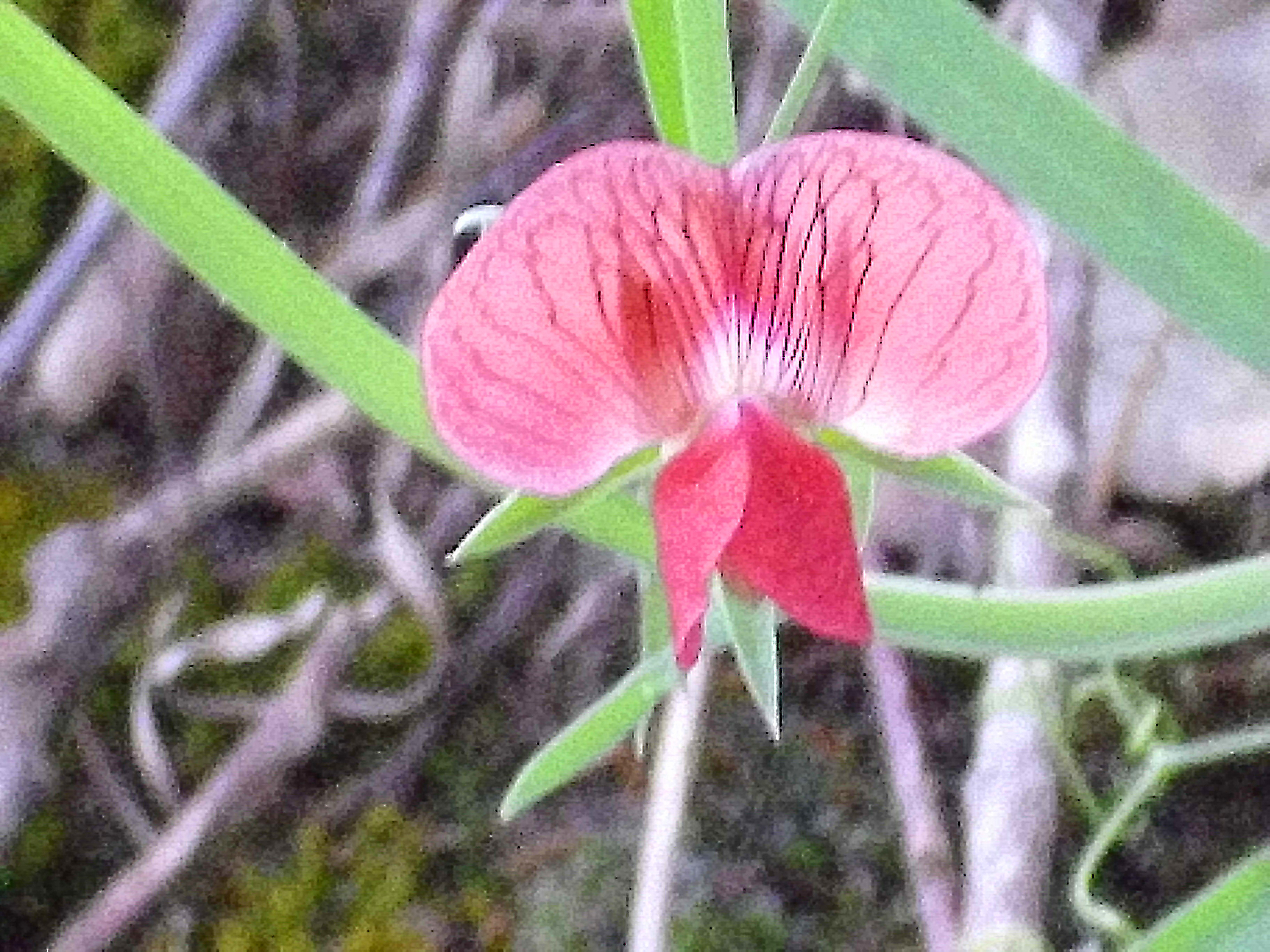 Lathyrus angulatus closeup, Sierra Madrona, Spain